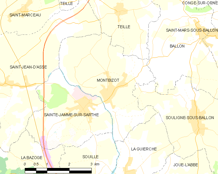 Map of French municipality